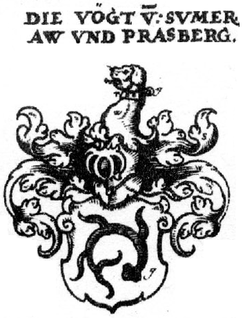 coat of arms of Vogt von Sumerau